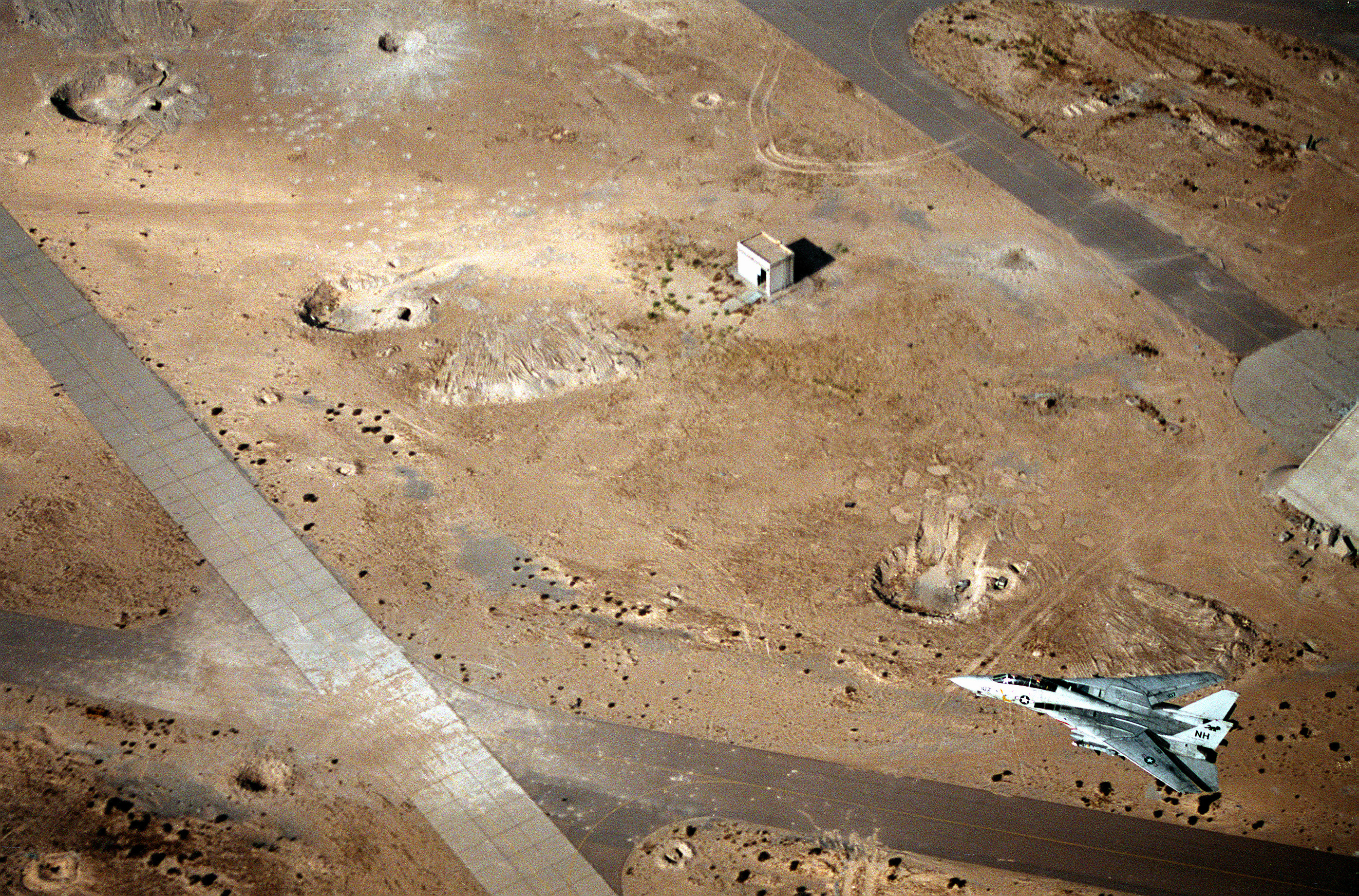 A Fighter Squadron 114 (VF-114) F-14A Tomcat aircraft flies over part of A1 Jaber Airfield. The airfield was heavily damaged during Operation Desert Storm.